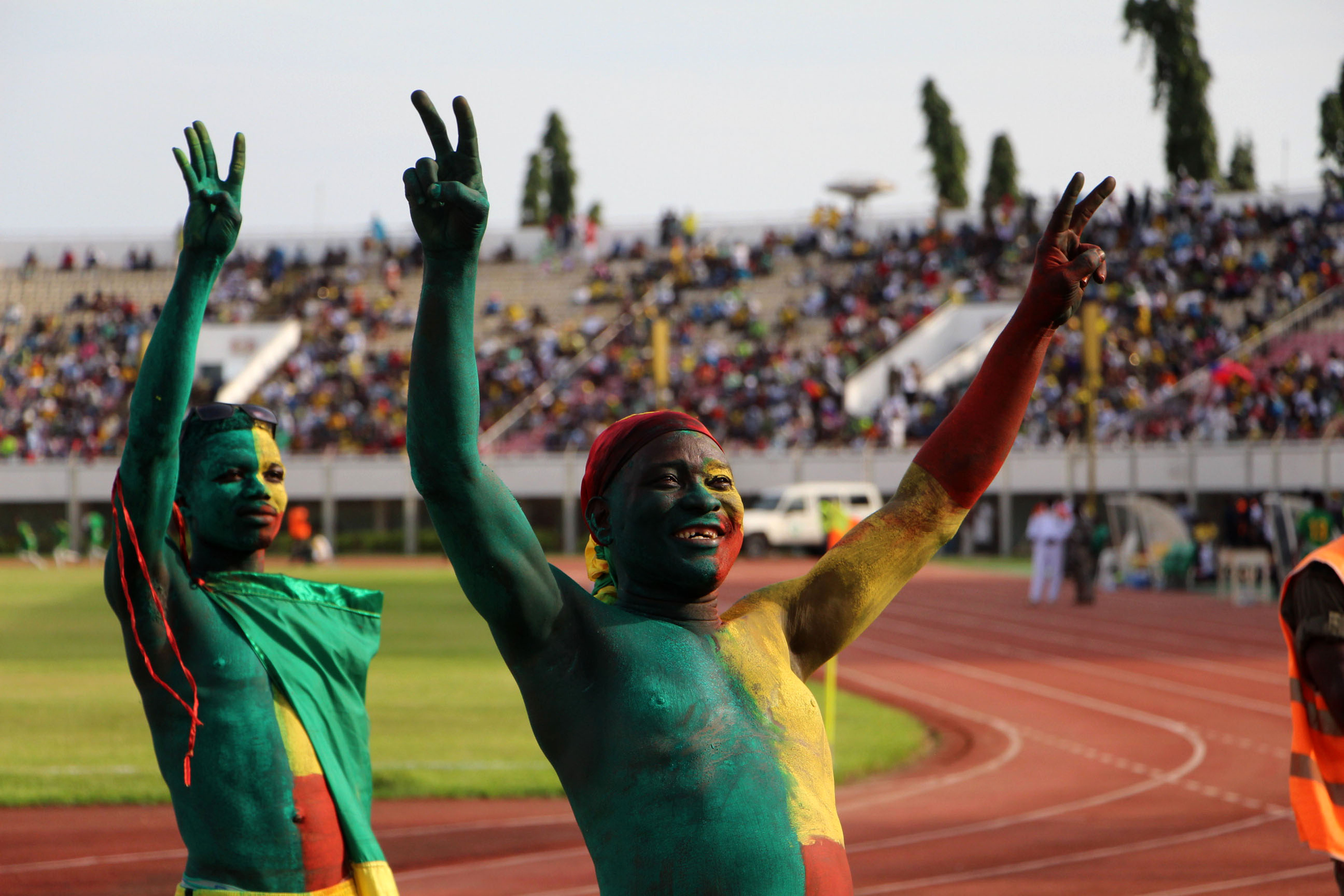 fans of players fiercely supporting their team for the CAN This is an image with the theme "Africa on the Move or Transport" from: Benin